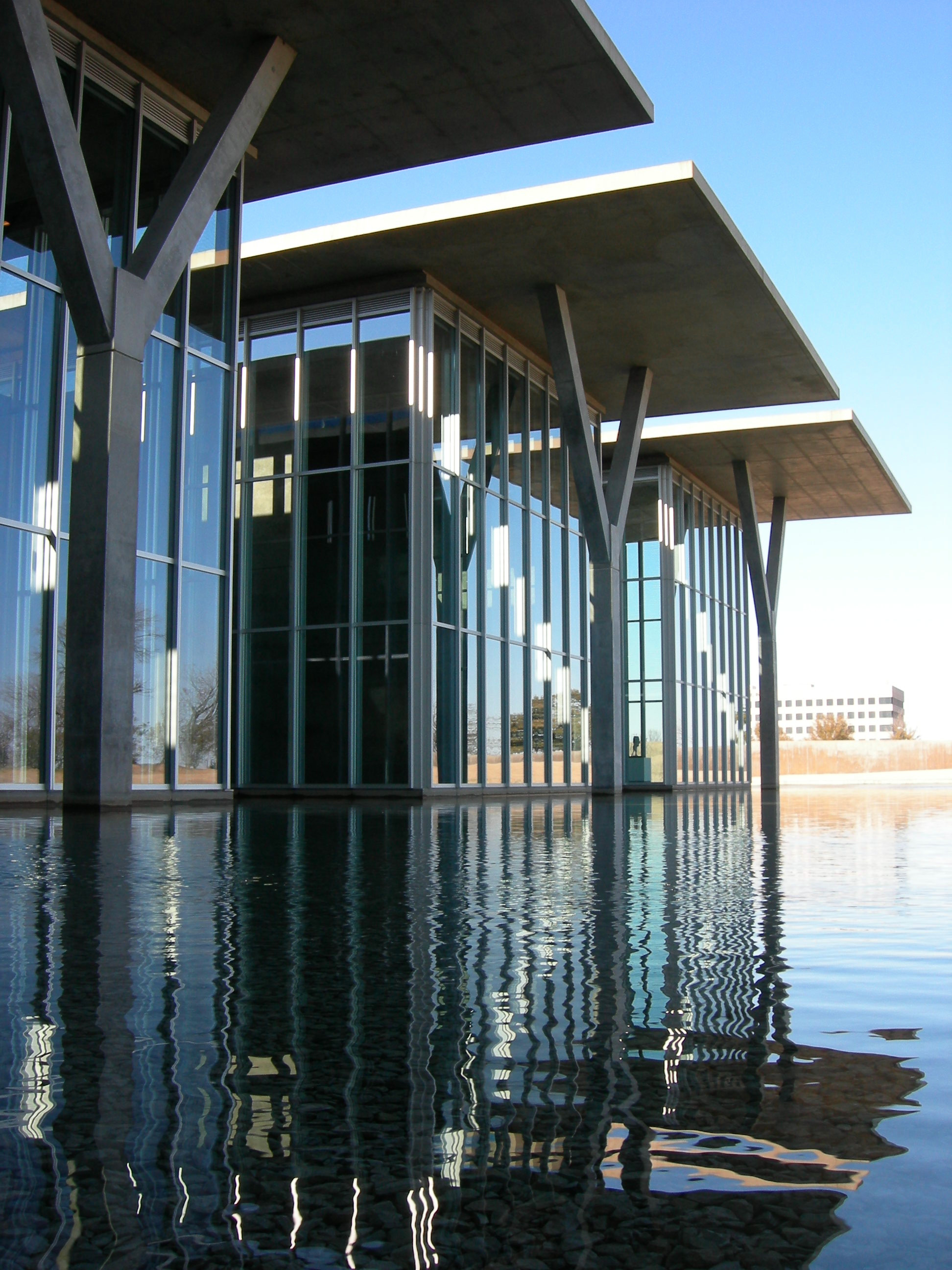 Modern Art Museum of Fort Worth, Fort Worth, Texas.